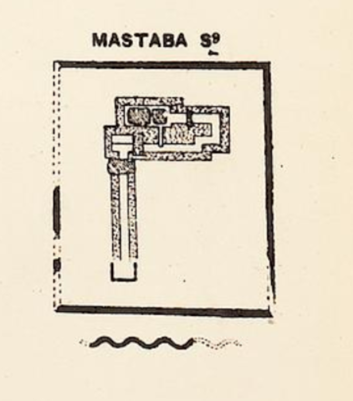 Plan of the tomb complex S9 in Abydos, now believed to belong to pharaoh Neferhotep I